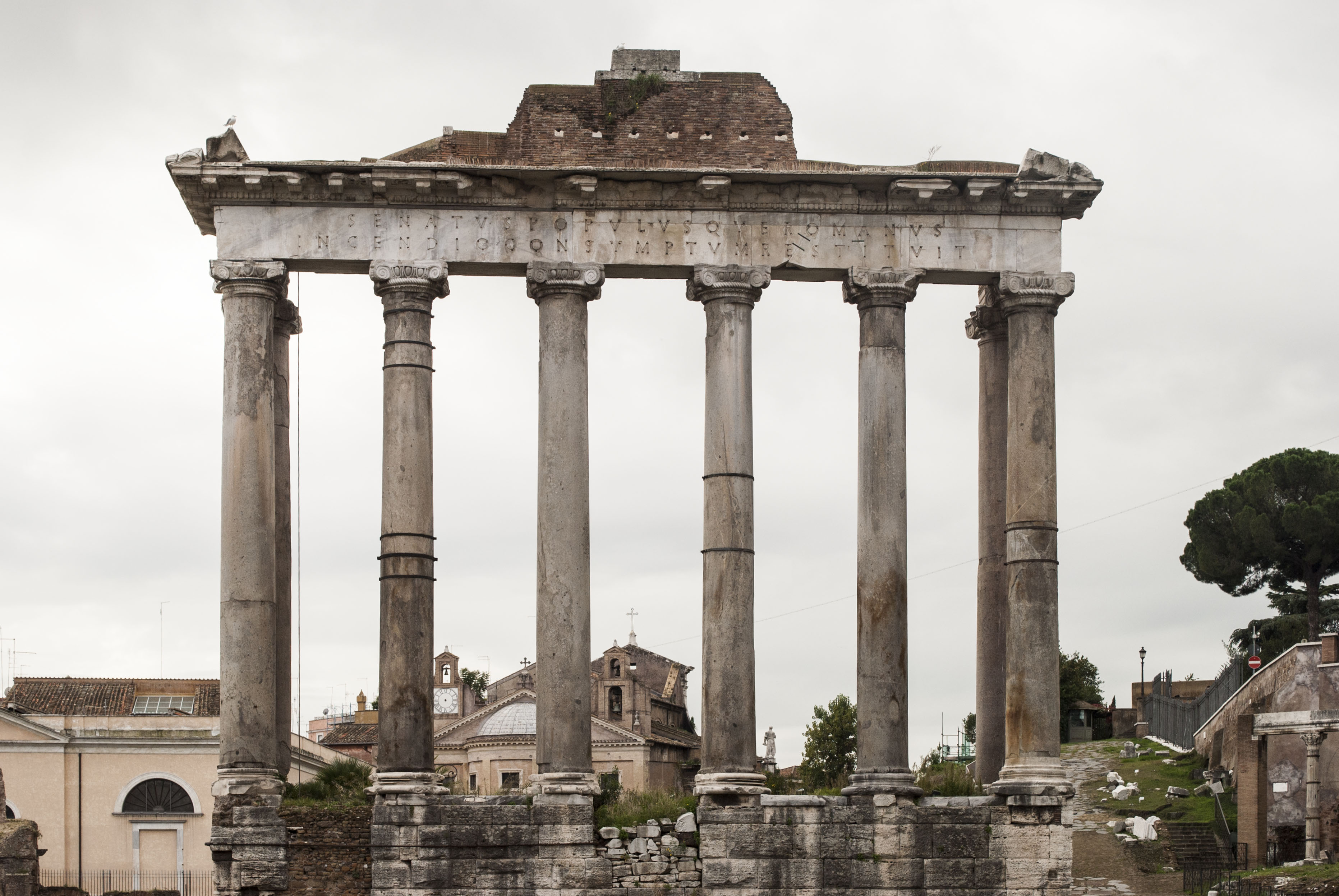 Temple of Saturn, Rome